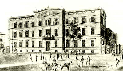 Scanned from a mid-19th century illustration